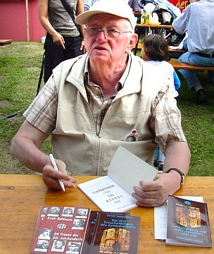 Erich Selbmann (a German journalist) signing a book.